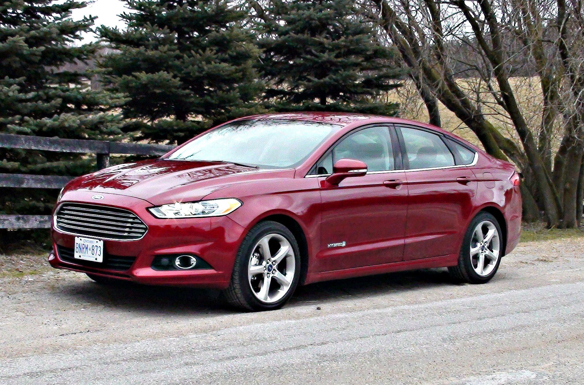 2013 Ford Fusion Hybrid